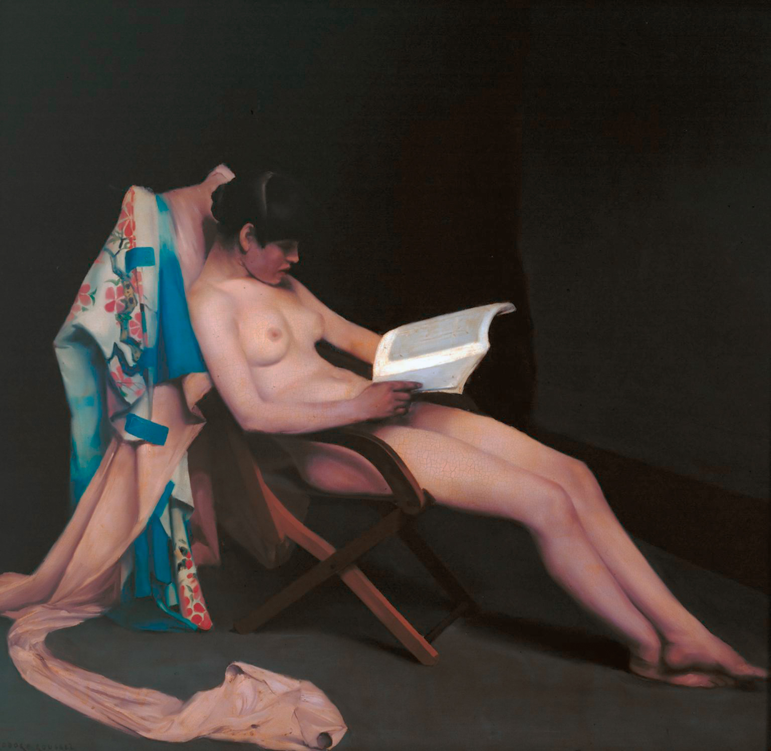 The reading girl oil on canvas 152.4 x 161.3 cm signed b.l.: Theodore Roussel 1886-1887